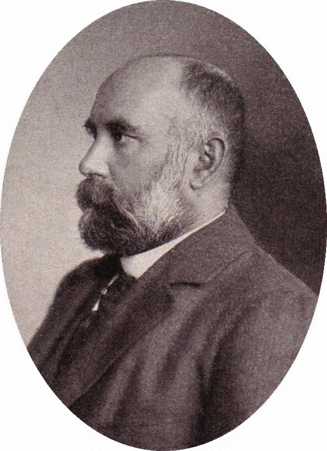 German surgeon Friedrich Lange-Lonforret, founder of the Albertina-Balastra. Caption Dr. iur. h. c. Regimontanus et Dr. med. Friedrich Lange-Lonforret A.G. der Burschenschaft Gothia der Stifter der Balastra-Albertina.